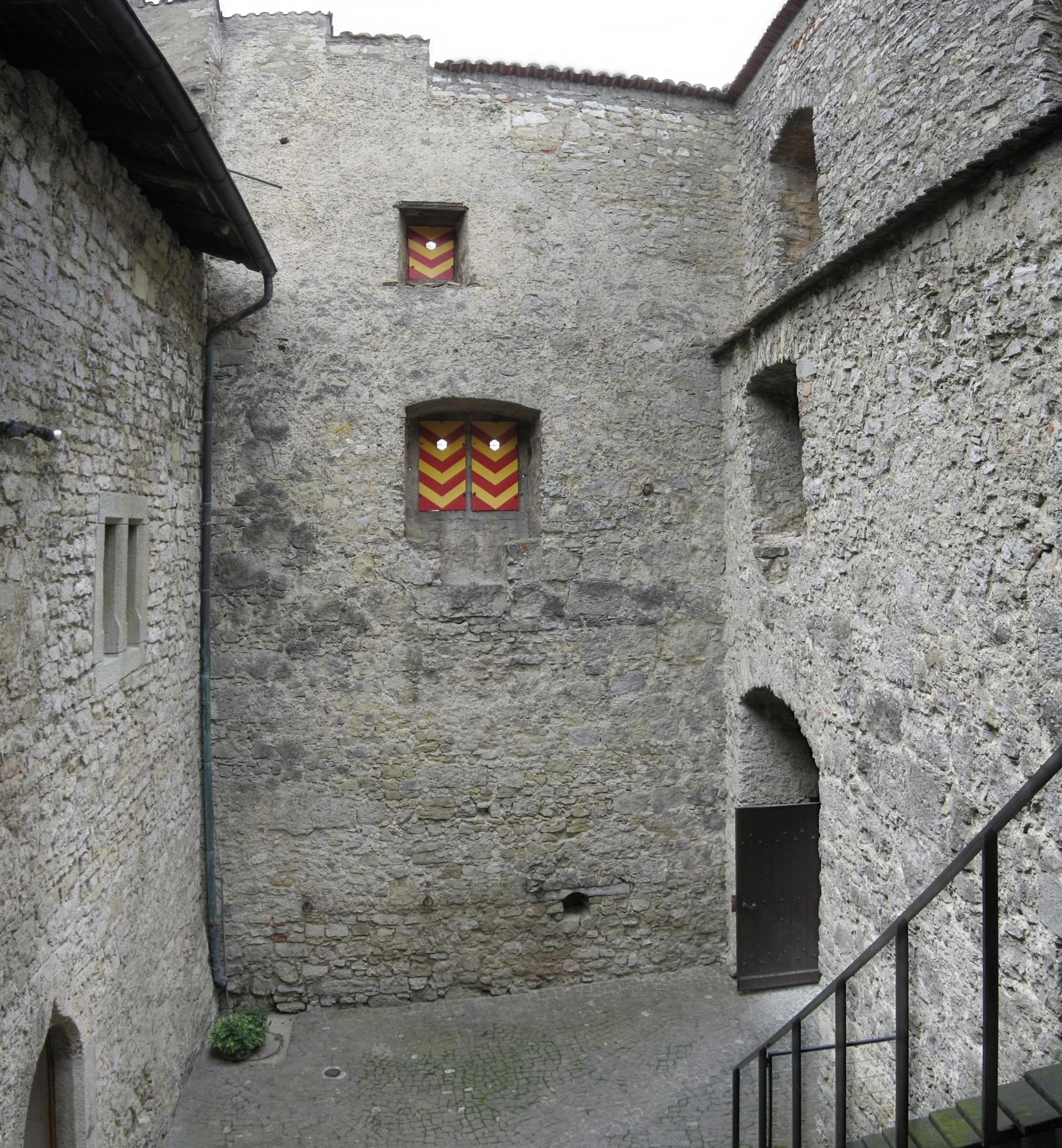 Courtyard of Habsburg Castle in Switzerland, exhibition in the castle.